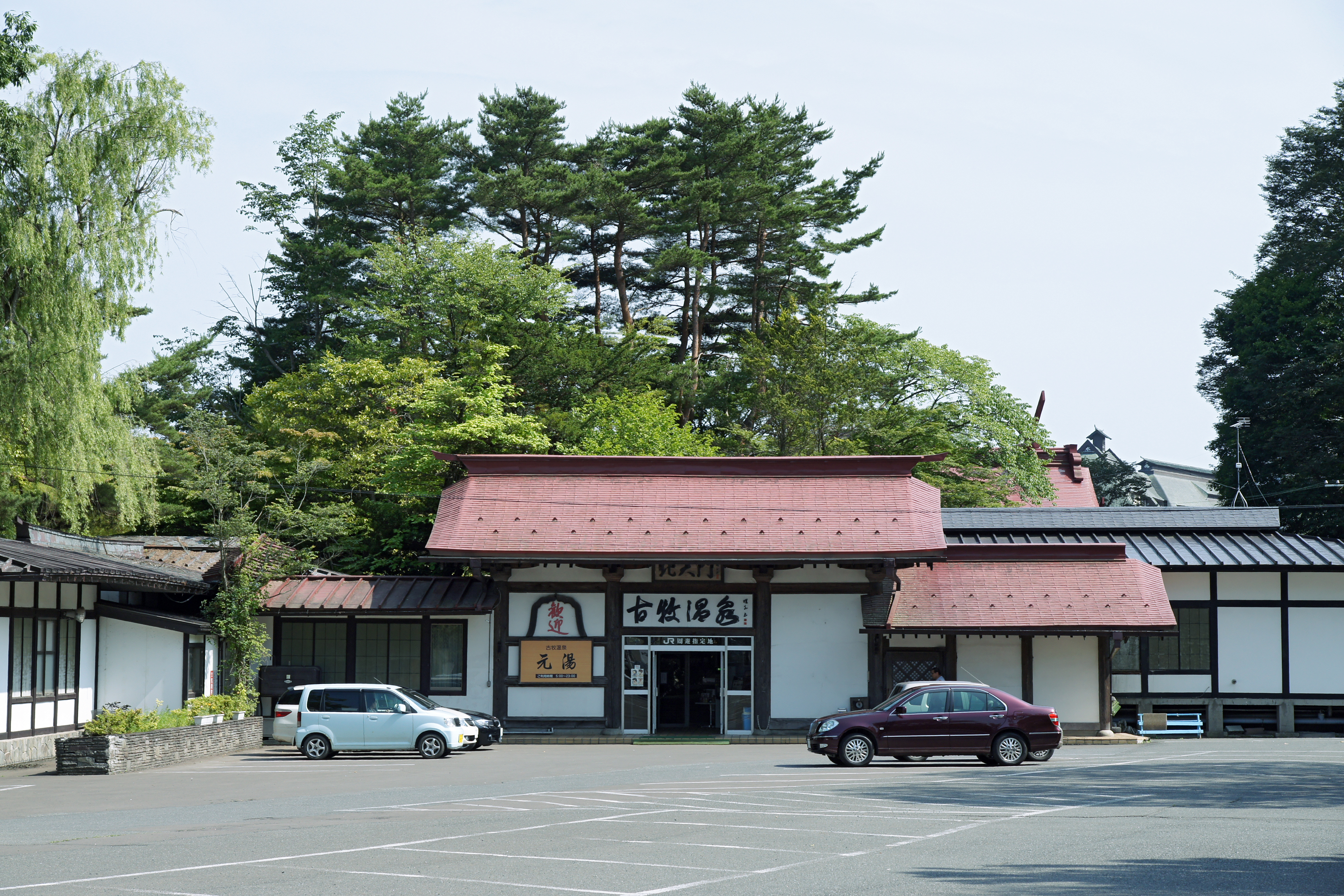 Komaki Onsen at Misawa, Aomori prefecture, Japan